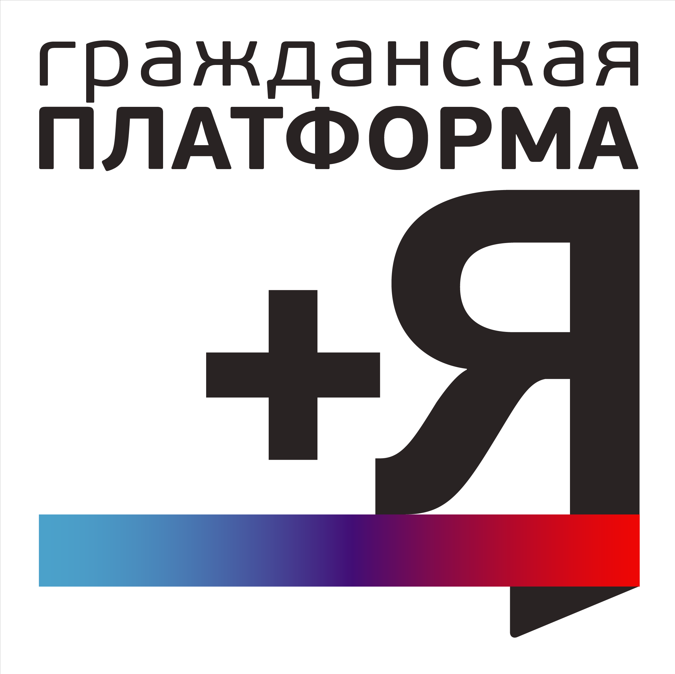 Logo Party Civil platform (Russia)